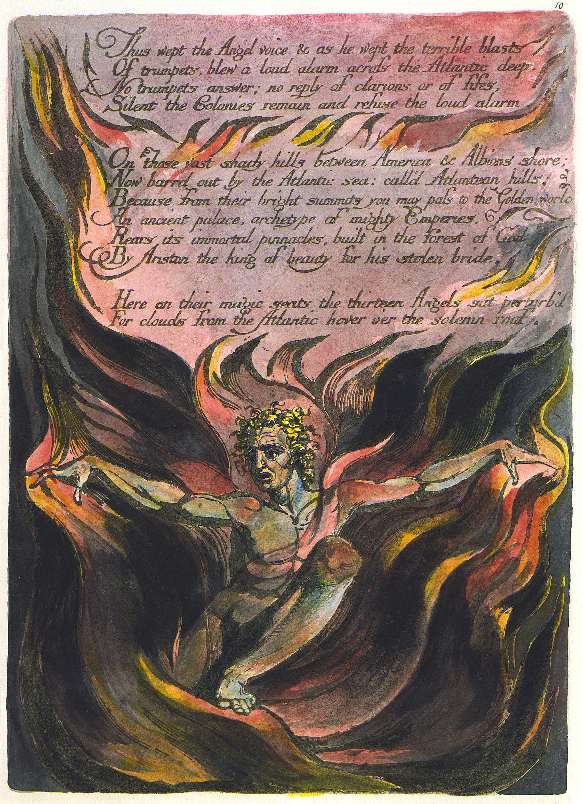 Plate 12 of America a Prophecy by William Blake, printed 1795. Relief etching with monoprinted color. Collection Morgan Library and Museum.